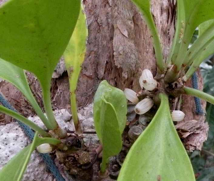 Myrmecodia beccarii fruiting in tropical wetlands of north Queensland, Australia.